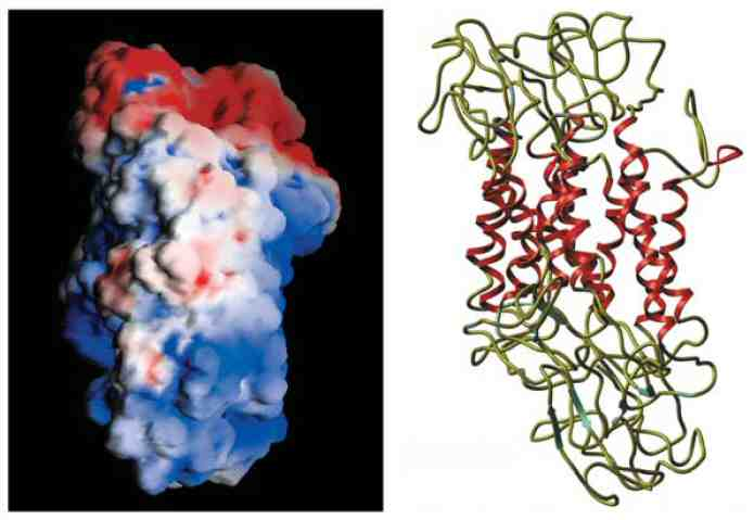 This is the hypothetical DAT-6 transporter (Dopamine Transporter).